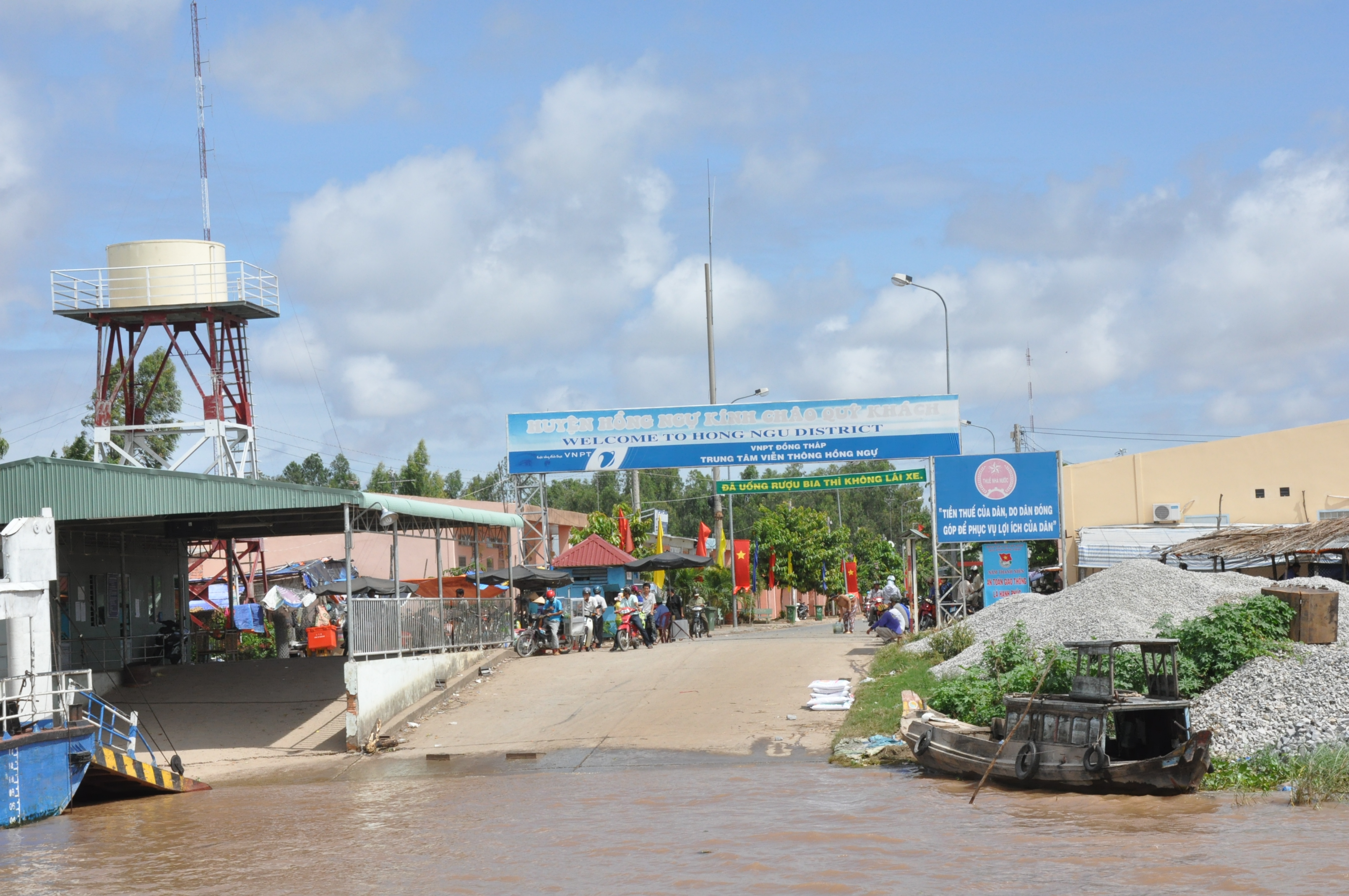 Ferry terminal in Hong Ngu